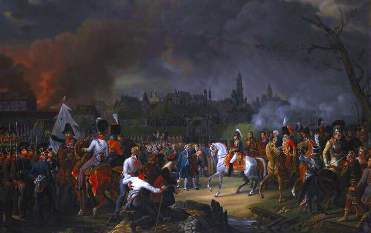 Entrée du Prince Jérôme à Breslau le 7 janvier 1807